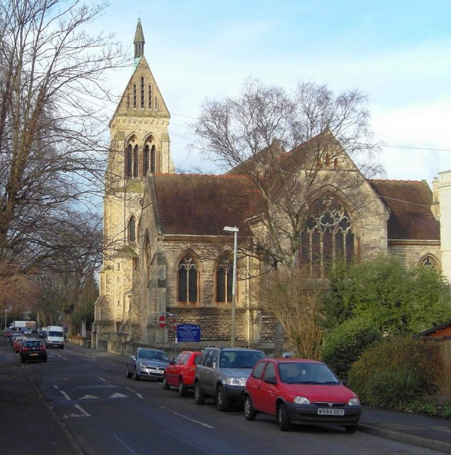 St Phillips and St James, Painswick Road, Cheltenham The church was consecrated in 1840 to cater for the growing population south of Cheltenham who had previously been served by St Peters Church, Leckhampton. Being surrounded by housing, it is difficult to get a good vantage point for a photograph.